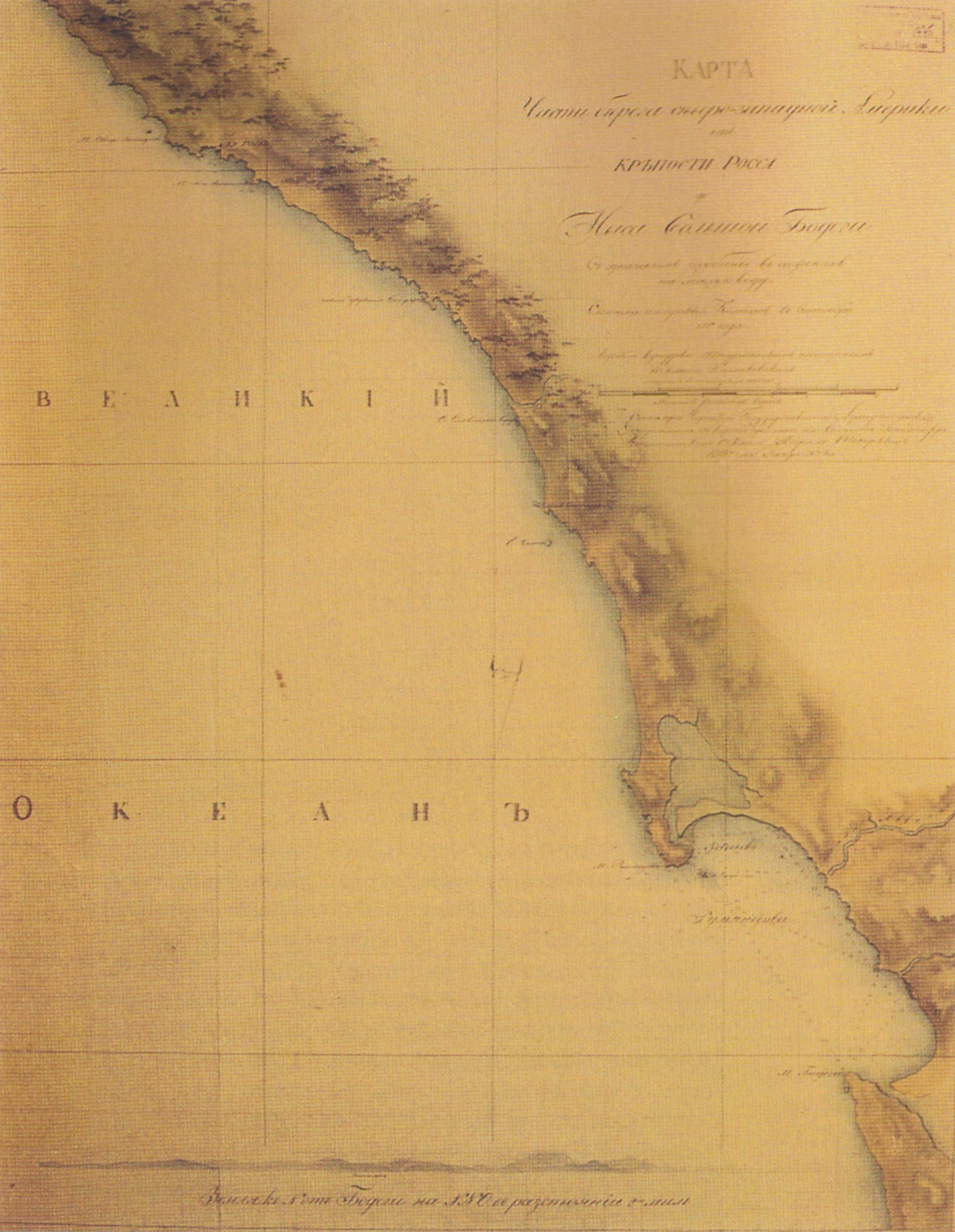 Section of Coast of Northwest America from Fort Ross to Point Great Bodega [Tomales Point], 1817 (corrected 1819) Ship Kutuzov